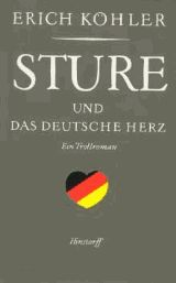 Book cover of Erich Köhler "Sture und das Deutsche Herz" 2009